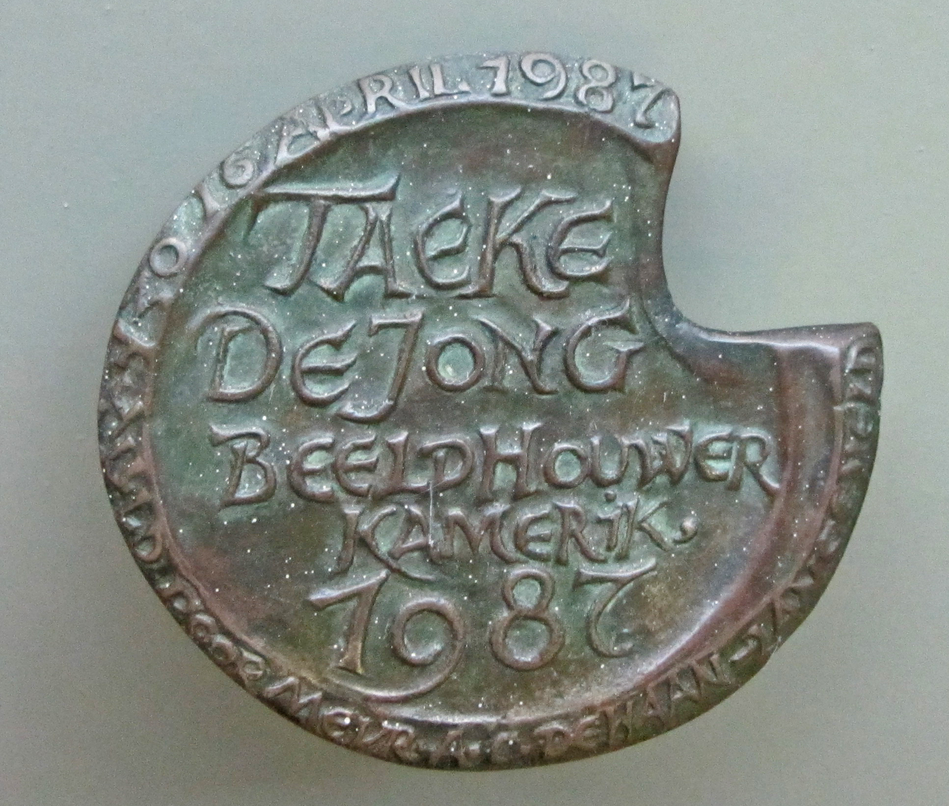 part of de sculpture of Gerrit Jan de Haan founder of Ecomare